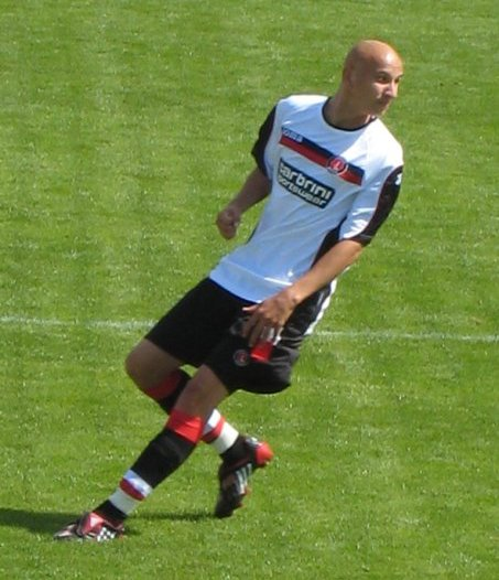 Jonjo Shelvey